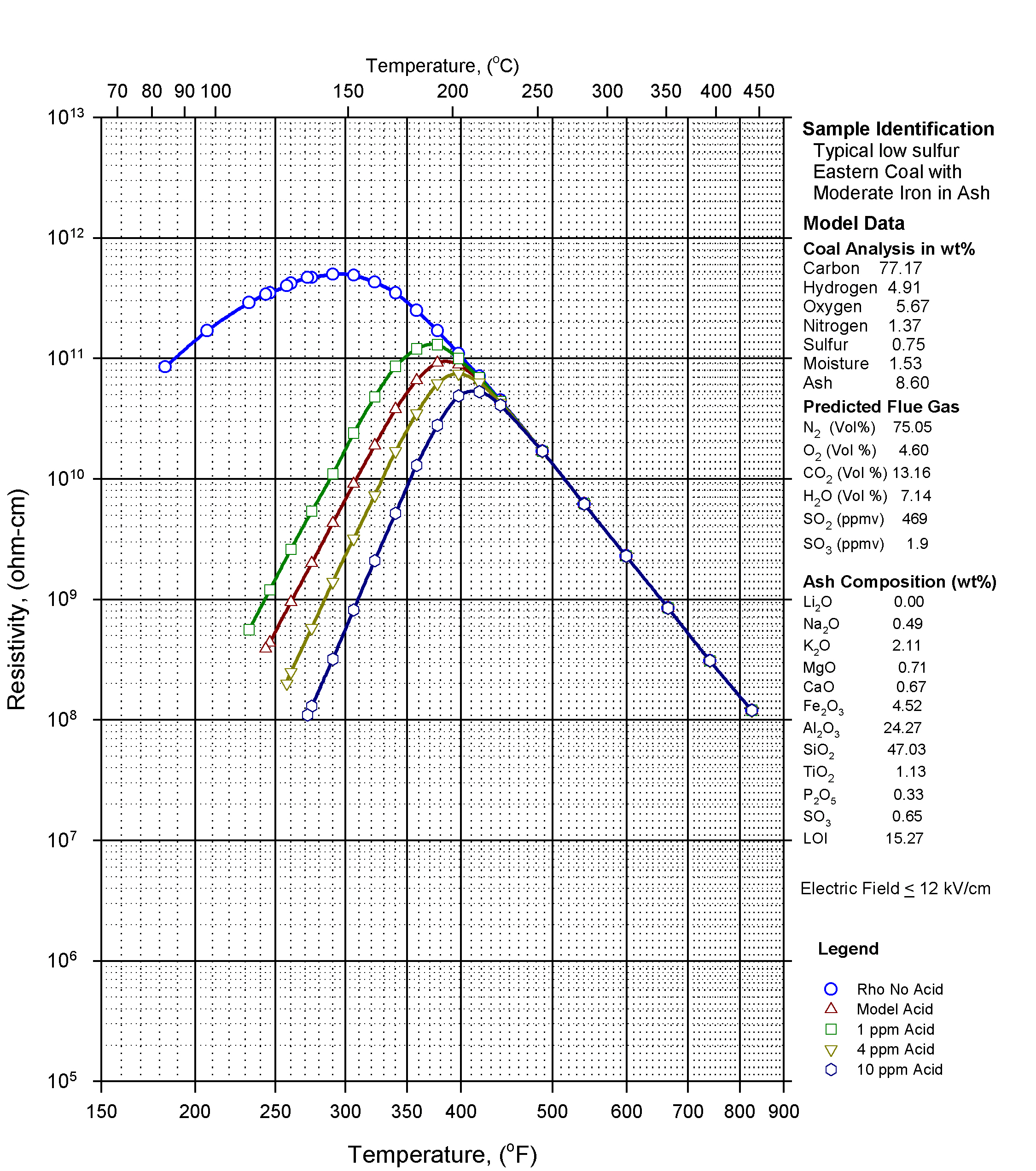 Resistivity modeled as a function of temperature and sulfuric acid vapor (SO3) concentrations. Typical low sulfur eastern coal with moderate iron content in the ash.